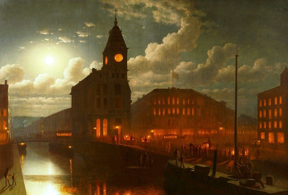 Syracuse by Moonlight; also known as Clinton Square - 1871